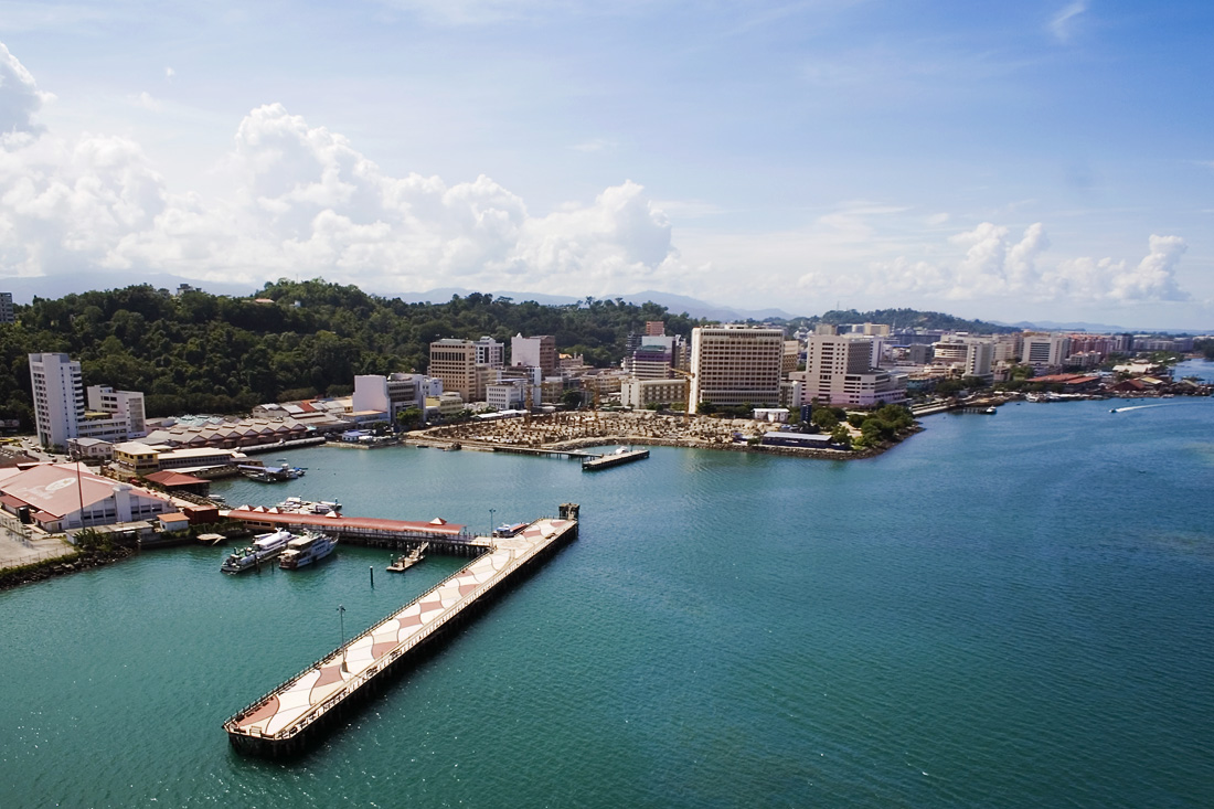 South CBD, where you can see Jesselton Point, Wisma Merdeka and Suria Sabah under construction.